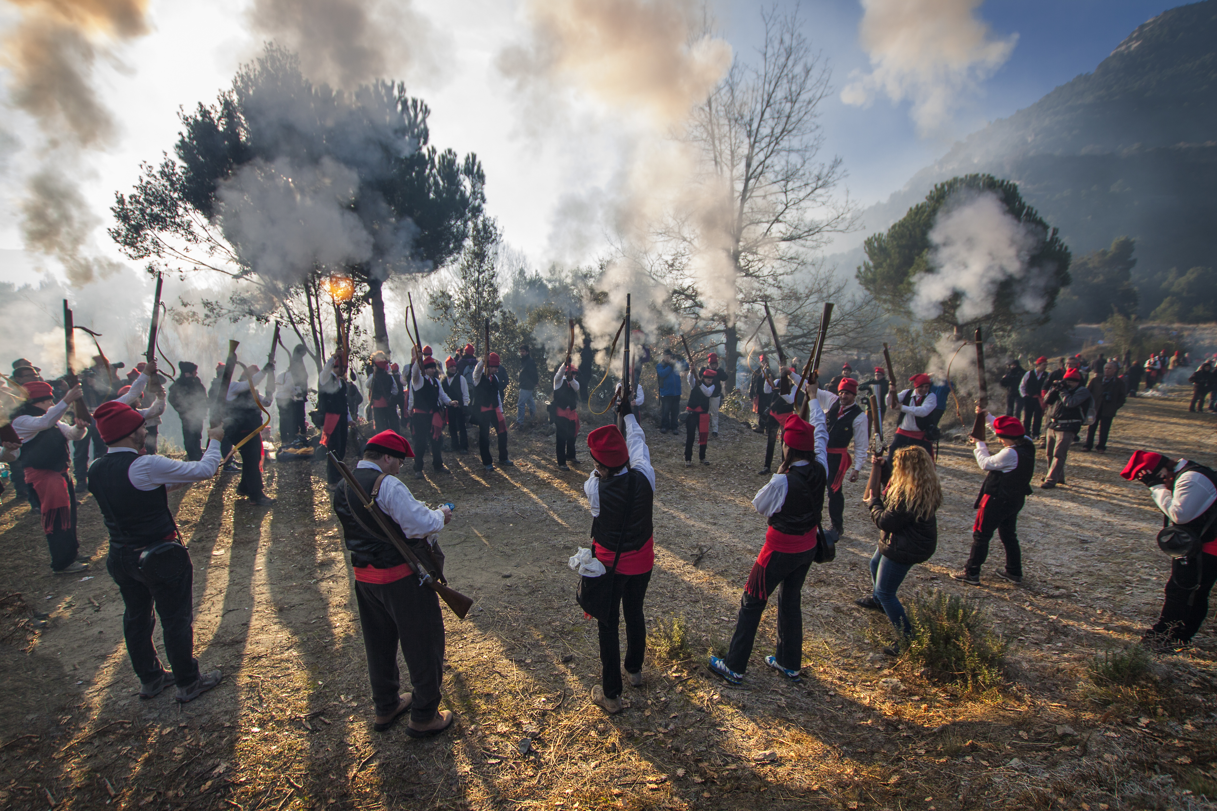 This is a photography of a Folklore festival in Spain (Wikidata id Q20108095).